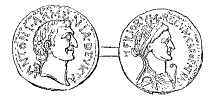 Coin with Antony on the obverse, Cleopatra on the reverse. Sear# 440.